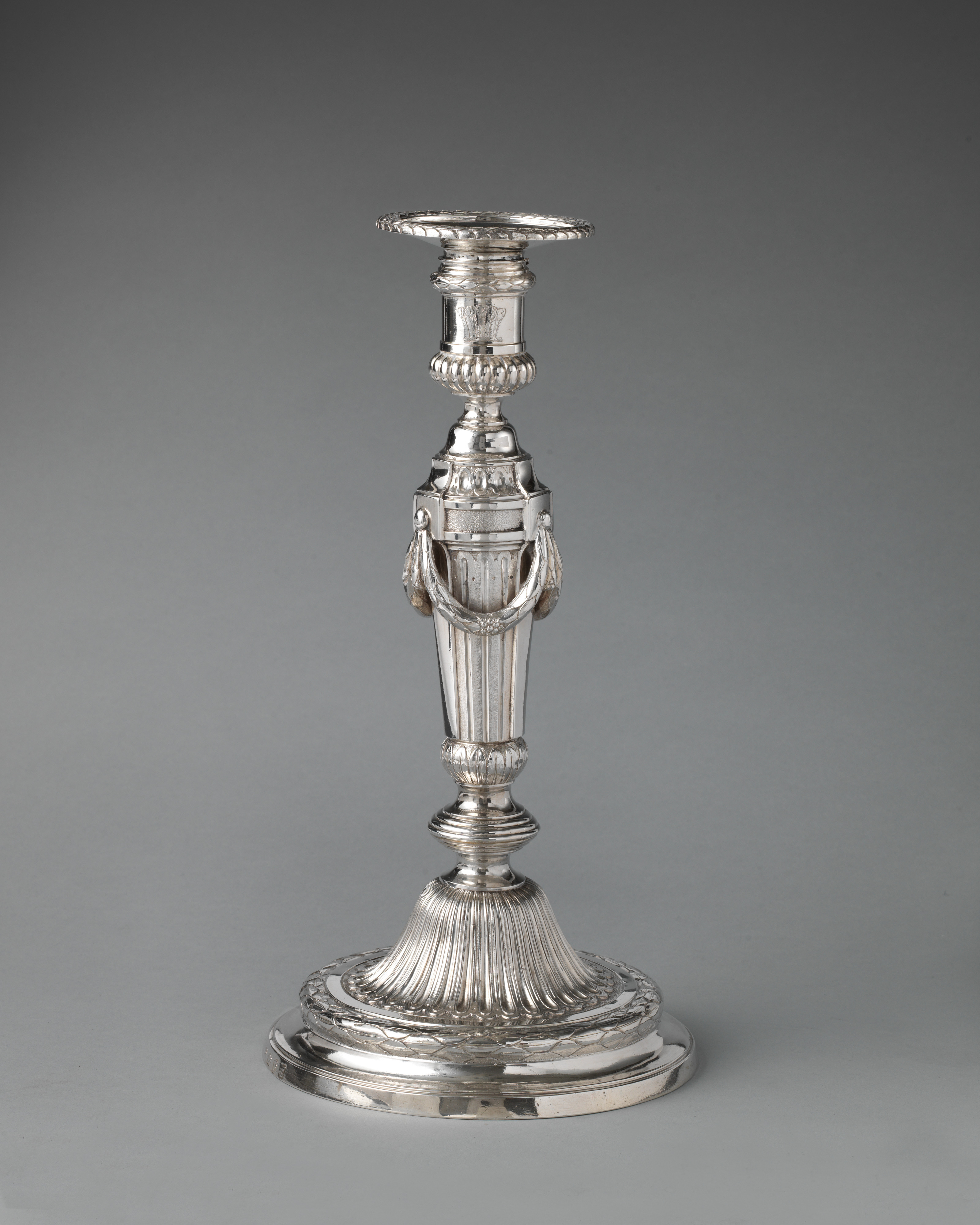 British, London; Candlestick; Metalwork-Silver